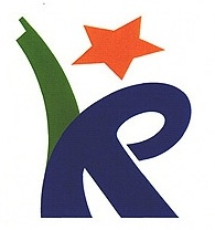 Konan Kochi chapter